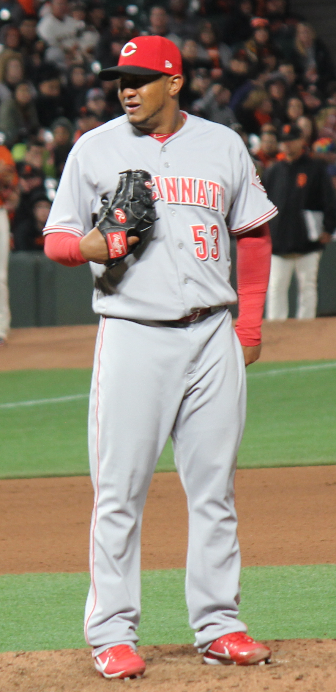 Photo of Wandy Peralta playing for the Cincinnati Reds on May 12, 2017.